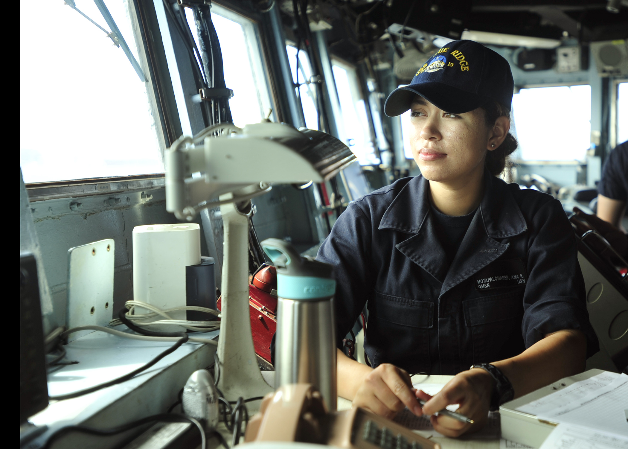 150902-N-XF387-351 YOKOSUKA, Japan (September 2, 2015) – United States Navy Quartermaster Seaman Ana K. Motapalomares, attached to the United States Seventh Fleet flagship USS Blue Ridge (LCC-19), records bearings as the ship arrives in Yokosuka, Japan. USS Blue Ridge (LCC-19) returned to homeport Yokosuka, Japan after completing a three-month summer patrol, strengthening and fostering relationships within the Indo-Asia-Pacific region. United States Navy photograph by Mass Communication Specialist Third Class Liz Dunagan / RELEASED.